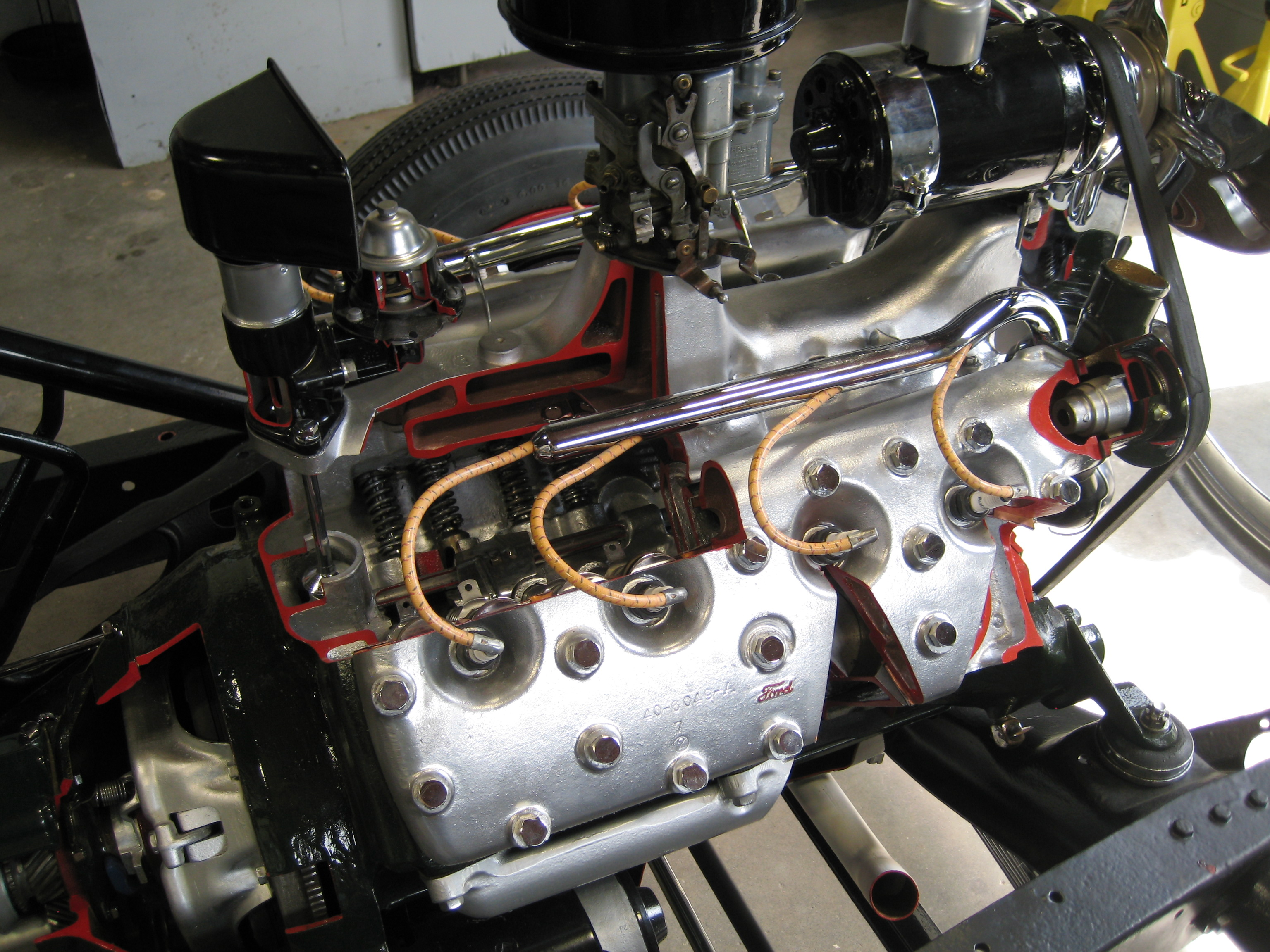 Seen at the open house of the LeMay Family Collection at the Marymount campus, Spanaway, Washington. This building is a new restoration shop, cleaned up for the open house. The Powell pickup was their latest project and looked great. I wonder if they have some cutaway body to go on this chassis.